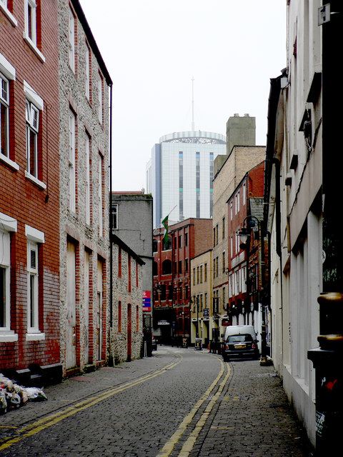 Womanby Street - Cardiff Little more than a cobbled lane at this end of the street. One of the newer buildings associated with development of the Millennium Stadium looms above the scene in historical contrast with its antiquity.